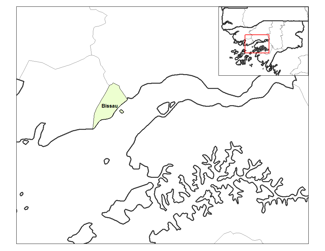 Map of the Bissau sector of Guinea-Bissau. Created by Rarelibra 14:14, 14 September 2006 (UTC) for public domain use, using MapInfo Professional v8.5 and various mapping resources.